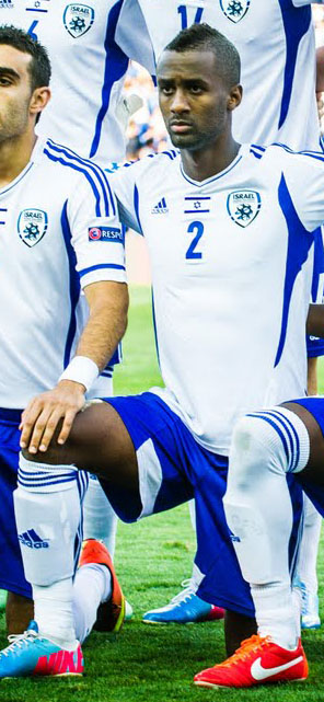 . Eli Dasa, UEFA U21s Football championships in Israel between Israel & Norway Photo By David Katz